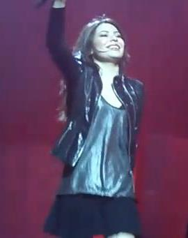 Miranda Cosgrove Concert Tour. Photo taken on 29-01-2011.